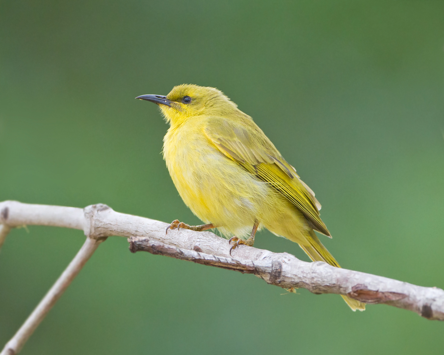 Yellow Honeyeater (Lichenostromus falvus), Cairns Esplanade, Cairns, Queensland, Australia